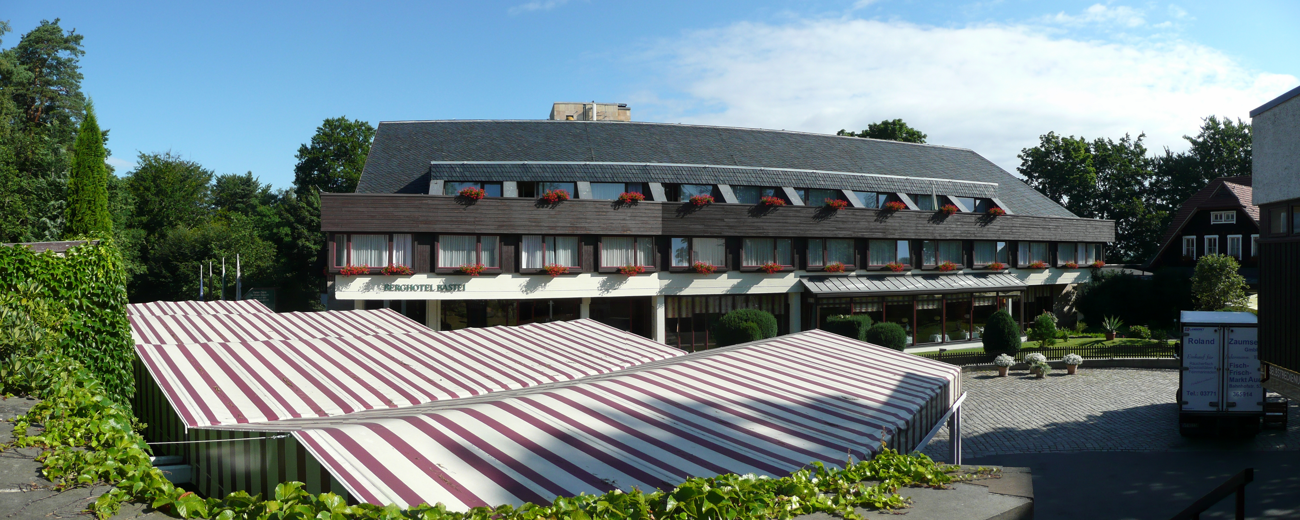 This image shows the hotel on top of the Bastei in the Saxon Switzerland.